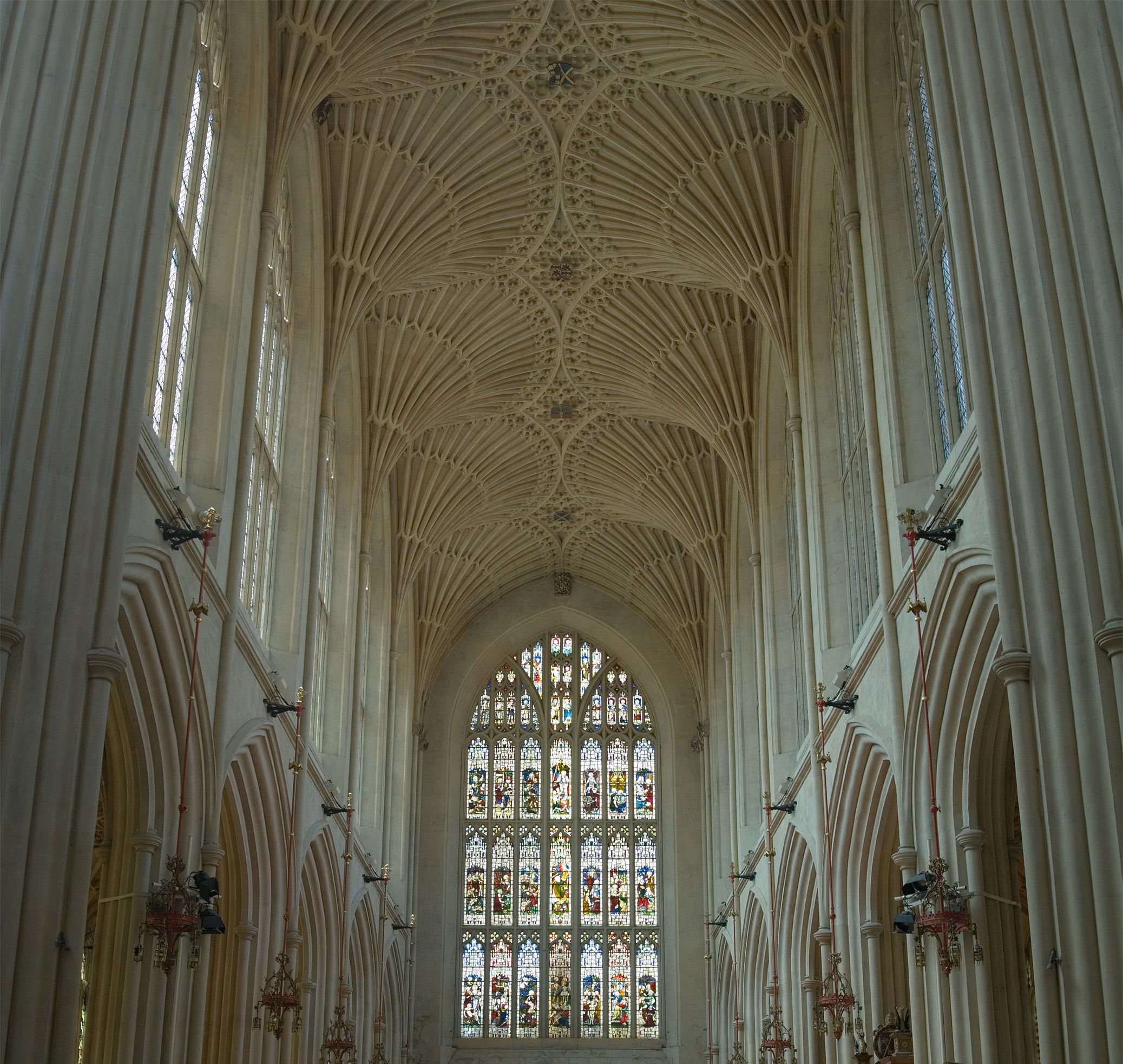 A vertical panorama looking back from the nave towards the entrance of Bath Abbey. The fan vaulting of the ceiling is clearly visible.